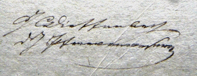 This is the signature of Georg Christian Dieffenbach, preserved in the church records of the Lutheran parish of Vielbrunn, Hesse, Germany.